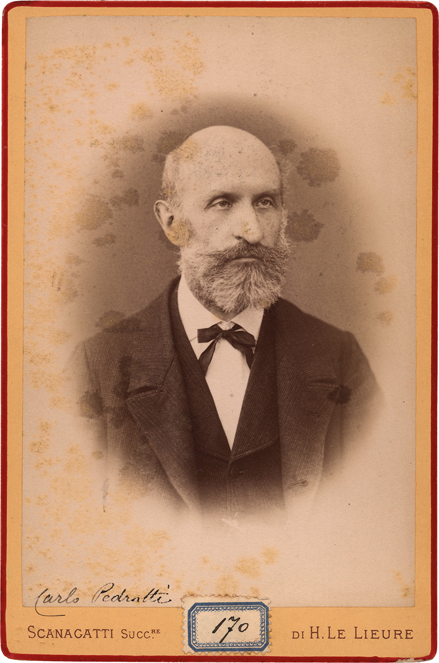 Portrait of Carlo Pedrotti, composer (1817-1893). Photo by Fratelli Scanagatti, before 1893.